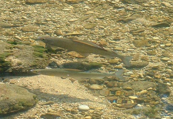 A pair of grayling on a spawning ground of the Ain.